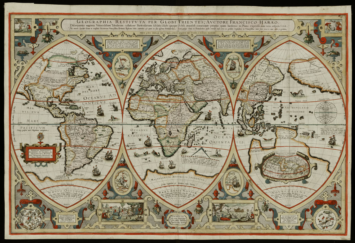 Zoom into this map at . Author: Verhaer, Franciscus. Publisher: [s.n.] Date: 1618. Scale: Scale not given. Call Number: G3200 1618.V4 Displaying the known world of the early 17th century as a triptych, with the map divided into three segments or gores, was very uncommon during the Golden Age of Dutch cartography. However, such a format was commonly used in altarpieces and would have been familiar to a Christian audience. Dividing the world into three parts was also reminiscent of the world diagrams drawn in the Medieval Christian tradition, especially Heinrich Bèunting's cloverleaf map. In the latter diagram, each of the three leaves (or gores) represented one of the known continents -- Europe, Africa, and Asia. In Verhaer's map, only the central section focused on this Old World view of the lands bordering the Mediterranean Sea -- Europe, Africa, and western Asia. Interestingly, the central focal point of this segment was still the eastern Mediterranean and by implication, Jerusalem reflecting the influence of the Medieval Christian world diagrams. The left section displayed the European discoveries to the west (Novus Occidens)-- the Atlantic Ocean and the Americas. Meanwhile, the right sphere depicts the European discoveries to the east (Novus Oriens) -- the Far East, the East Indies, and the Pacific Ocean. While this three-part projection reduced the amount of distortion for the respective geographic areas, it was also a logical presentation of classical and medieval geographical tradition in the context of the new geographical knowledge gleaned from Europeans' 15th- and 16th-century explorations.